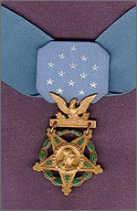 Medal of Honor awarded to members of the United States Army